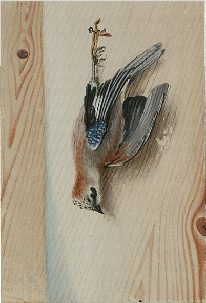 Dead jay